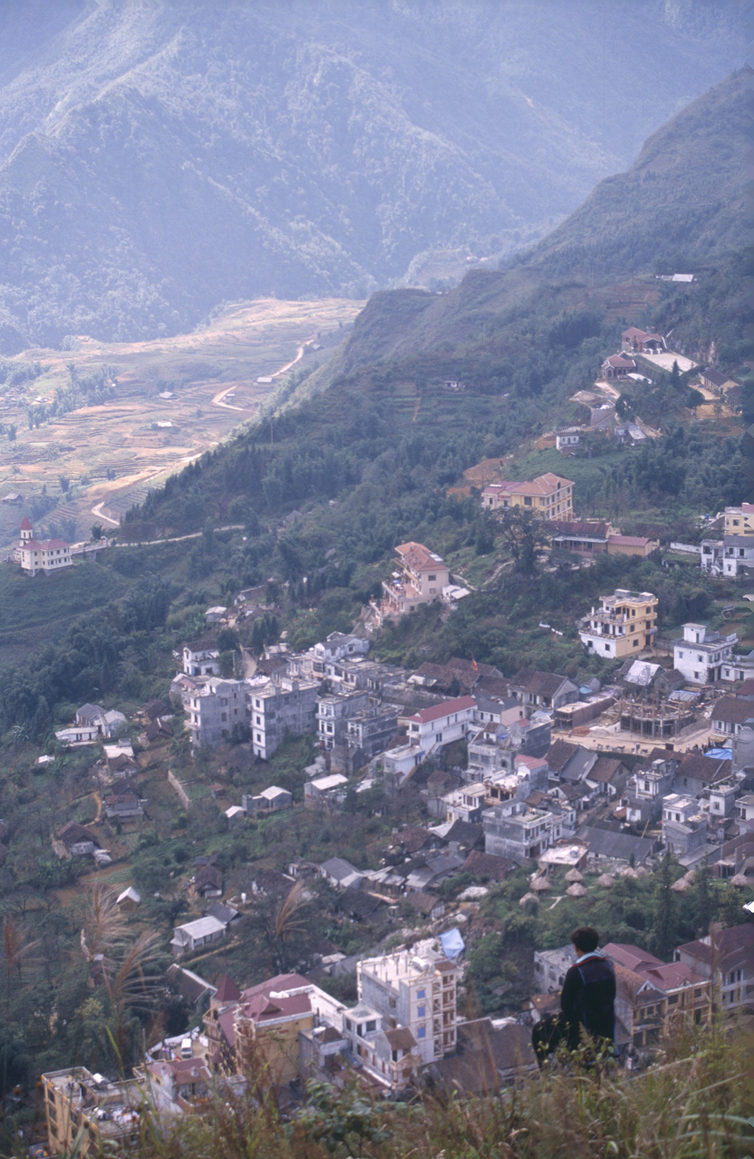 View of Sapa, Vietnam